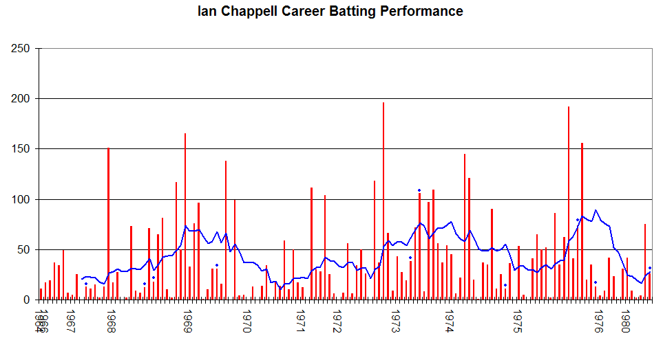 This graph details the Test Match performance of Ian Chappell. It was created by Raven4x4x. The red bars indicate the player's test match innings, while the blue line shows the average of the ten most recent innings at that point. Note that this average cannot be calculated for the first nine innings. The blue dots indicate innings in which Chappell finished not-out. This graph was generated with Microsoft Excel 2002, using data from Cricinfo and .au.